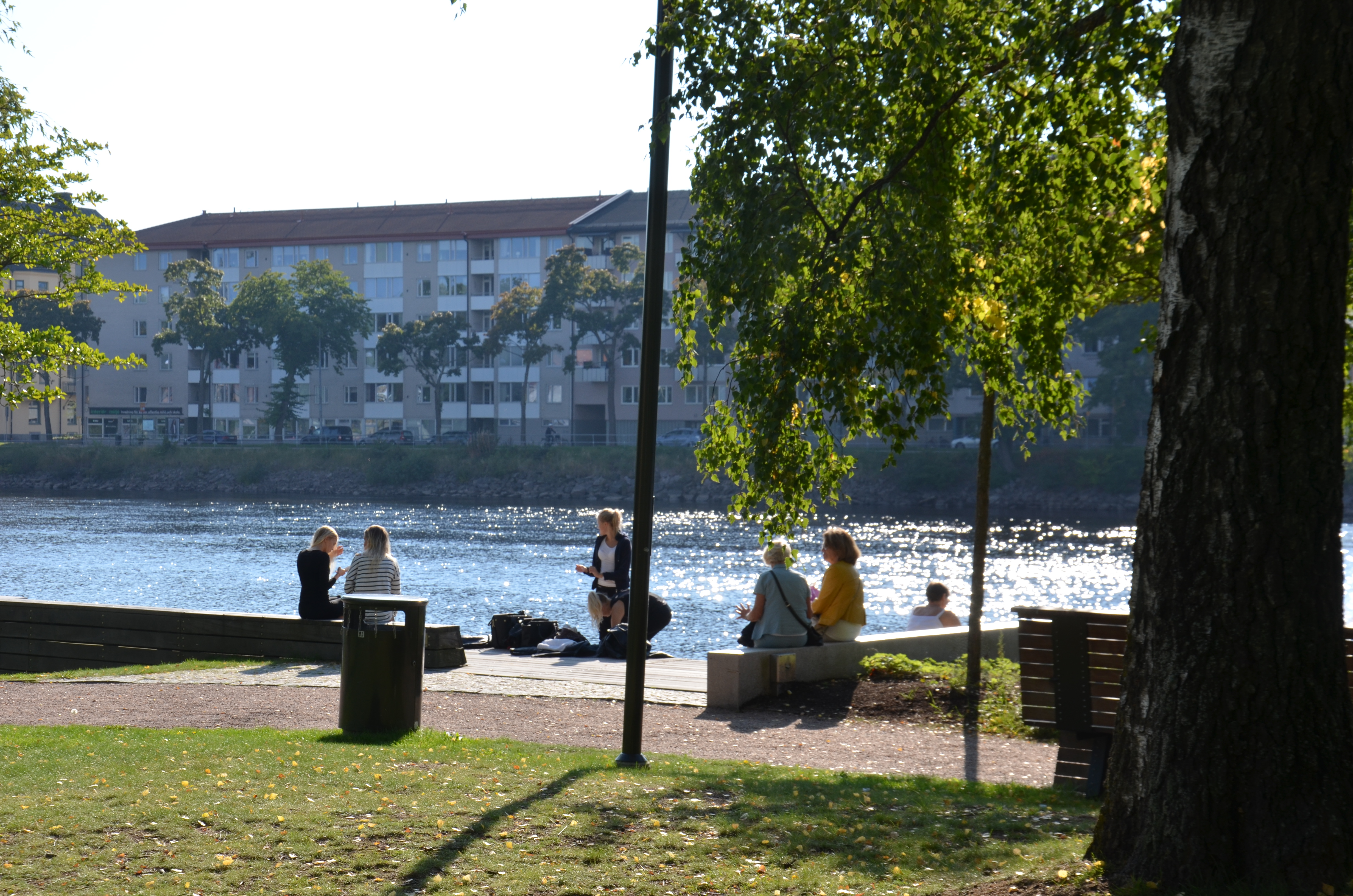 Sandgrundsparken västra sidan med västra Klarälven